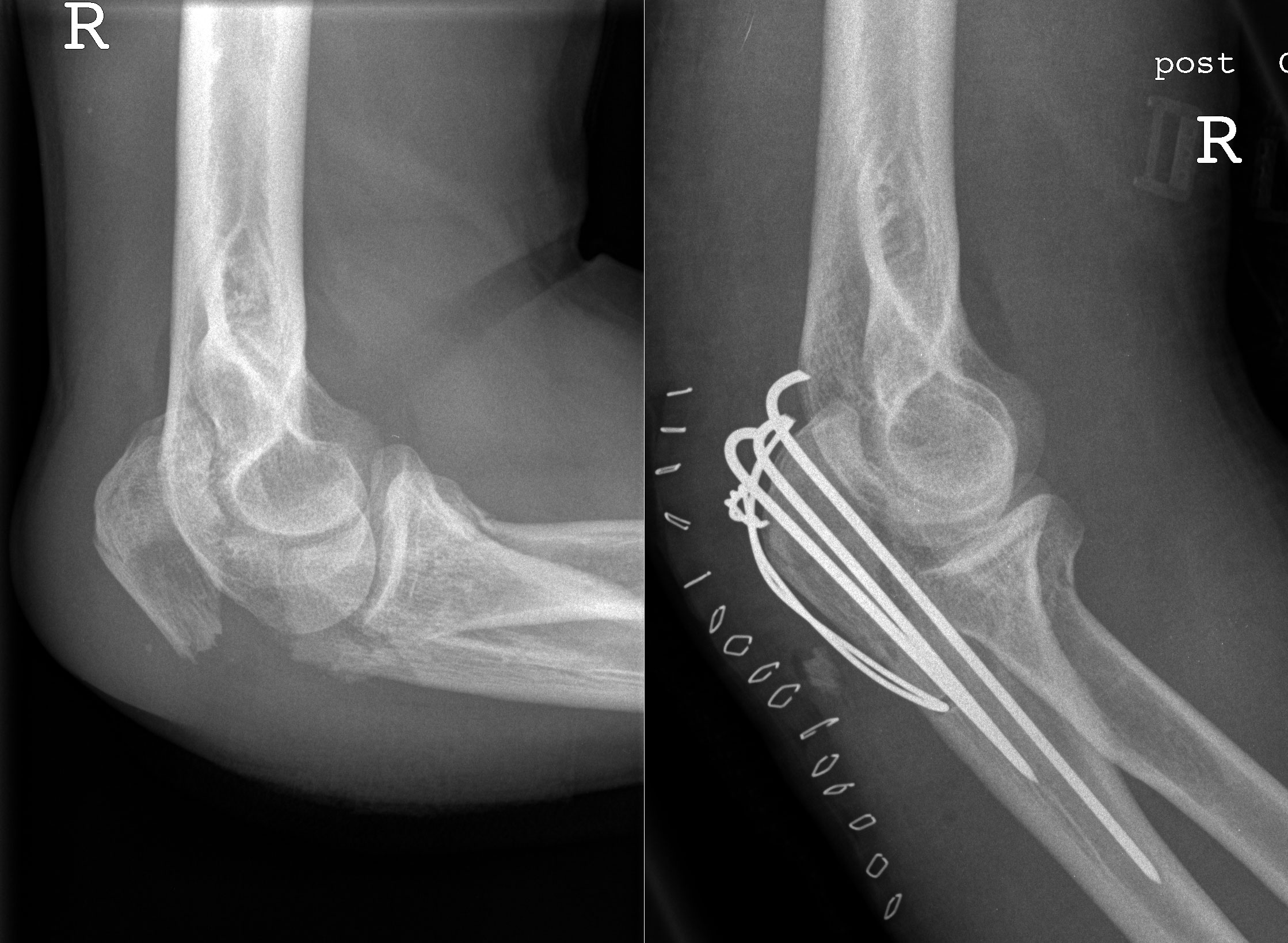 Fracture of Olecranon pre/post typical surgery, composed from digital x-rays given to me (the patient) without any restrictions